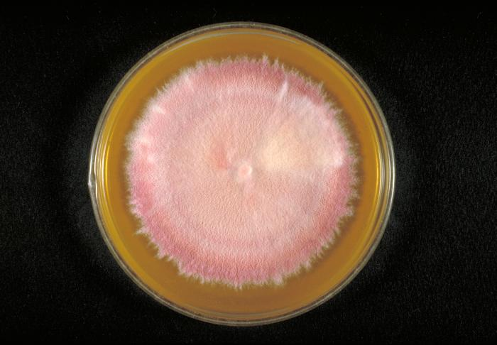 ID#: 4300 Description: This Sabouraud’s dextrose agar plate culture is growing T. terrestre fungus, strain x231 producing a red pigment. The dermatophytic genus Trichophyton sp. is one of the leading causes of hair, skin, and nail infections in humans, and includes anthropophilic, zoophilic, and geophilic species. Some are localized, while others are distributed worldwide. Content Providers(s): CDC/Dr. Lucille K. George Creation Date: 1963 Copyright Restrictions: None - This image is in the public domain and thus free of any copyright restrictions. As a matter of courtesy we request that the content provider be credited and notified in any public or private usage of this image.